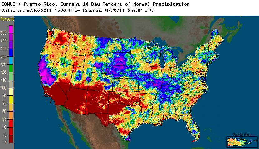 Precipitation map by the U.S. Weather Service for the last two weeks of June 2011. Precipitation over the Missouri River basin was 600 percent or more of normal.